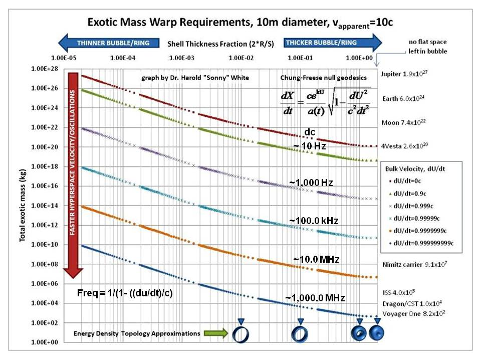 Warp Requirements for 10m OD Sphere